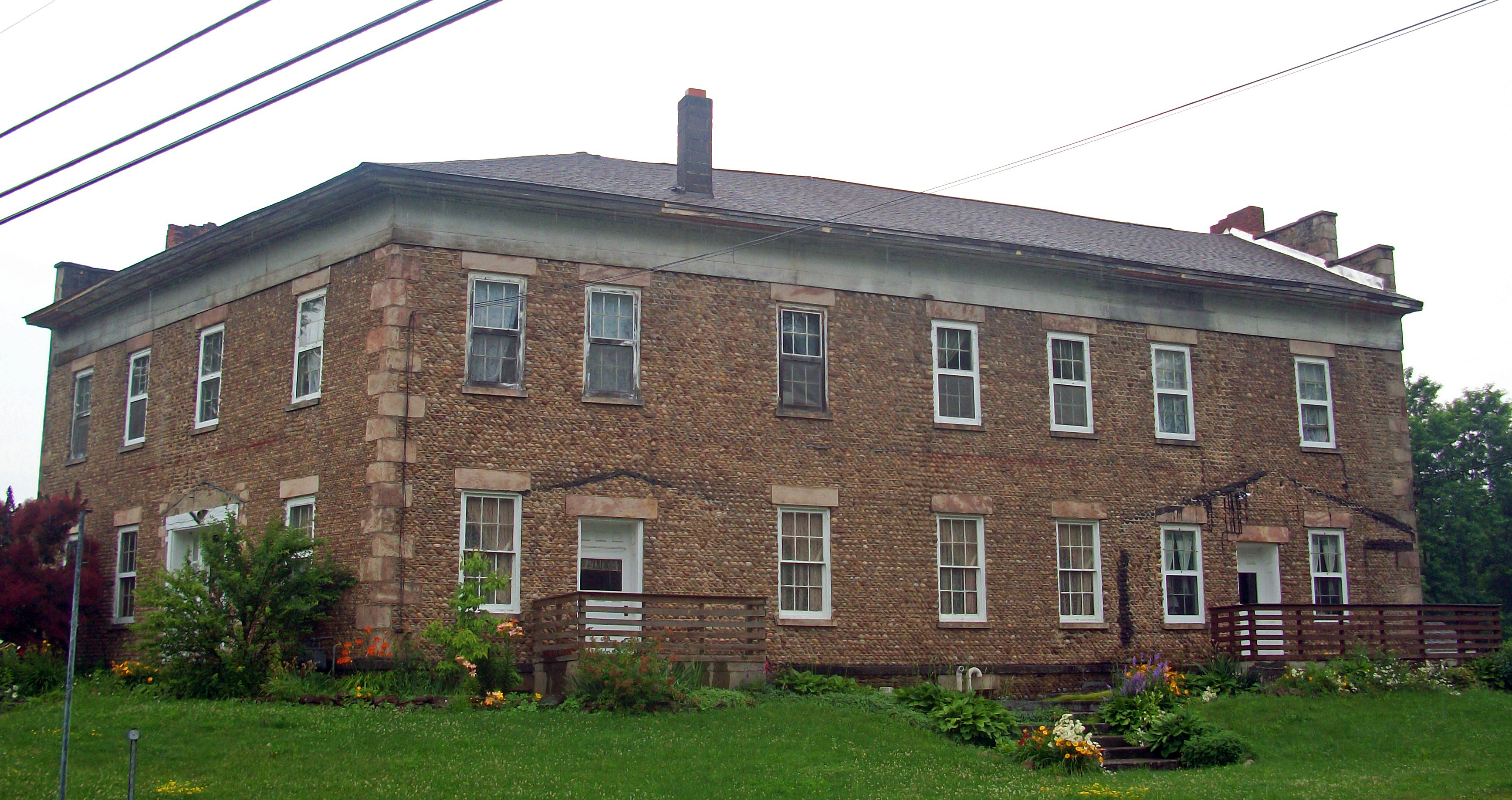 Cobblestone Inn, possibly the largest cobblestone building in the state, Oak-Orchard-on-the-Ridge, NY, USA